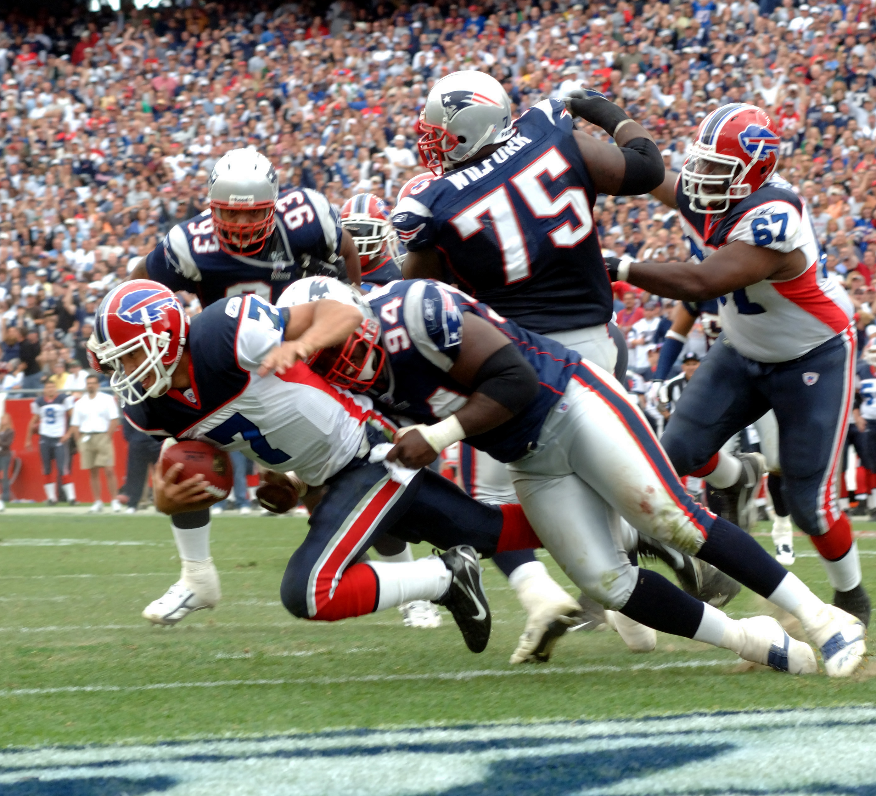 Buffalo Bills Quarterback J.P. Losman gets tackled in the endzone by Patriots left End Ty Warren for a safety during a crucial play in the fourth quarter on 10 Sep. Before the game, a B-2 Stealth Bomber from Whiteman Air Force Base, Mo., did a flyover that erupted the crowd and hundreds of recruits enlisted in the Army National Guard during halftime. New England went on to win the game played at Gillette Stadium, 19-17. (U. S. Air Force photo by Tech. Sgt. Larry A. Simmons)